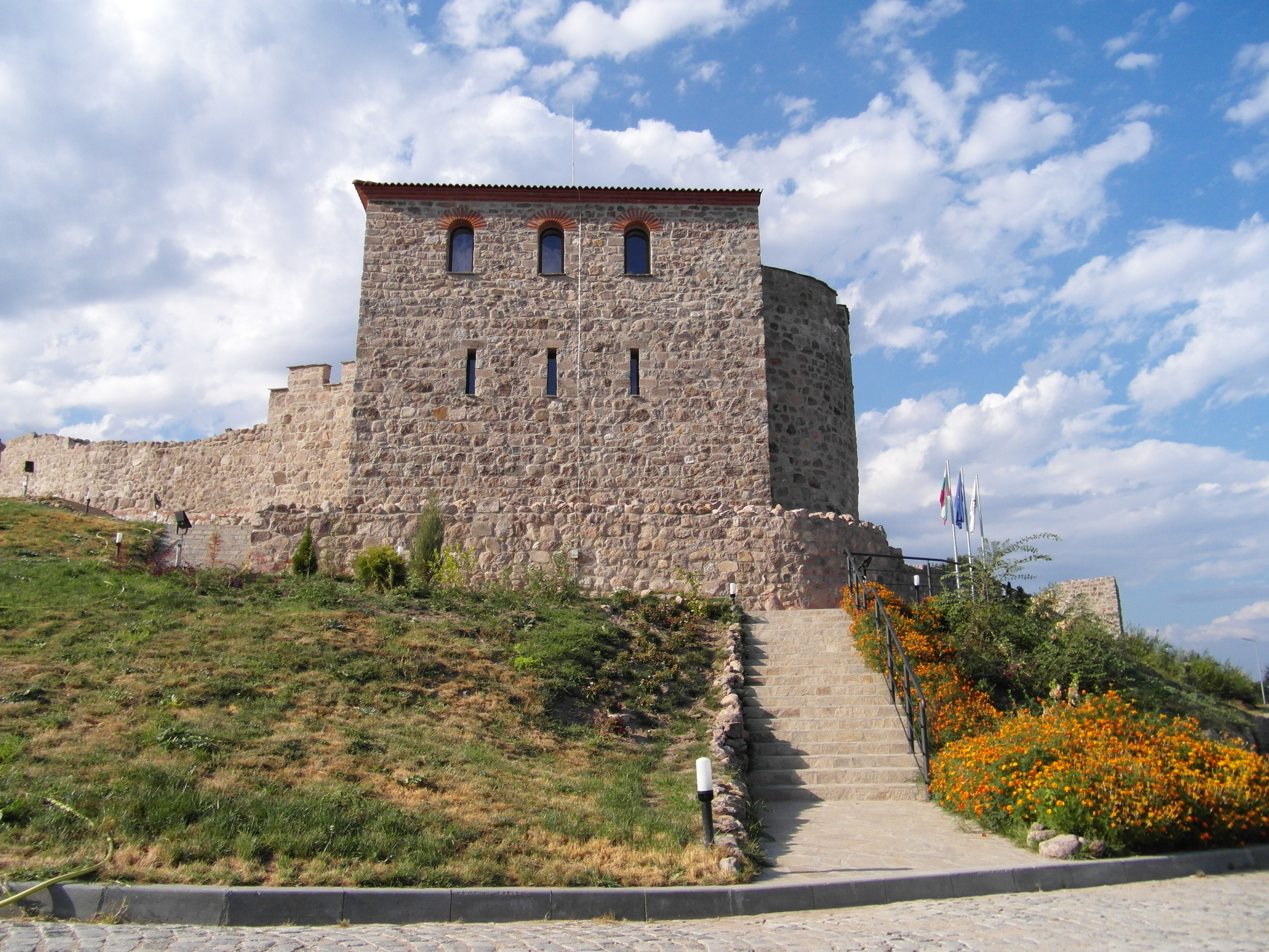 Перистера (крепост) до град Пещера, България